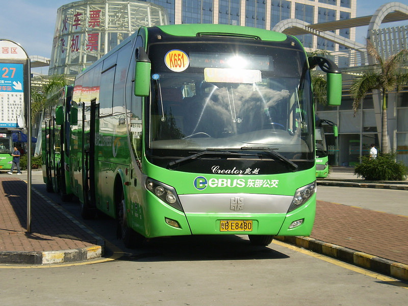 Shenzhen Bus Route K651